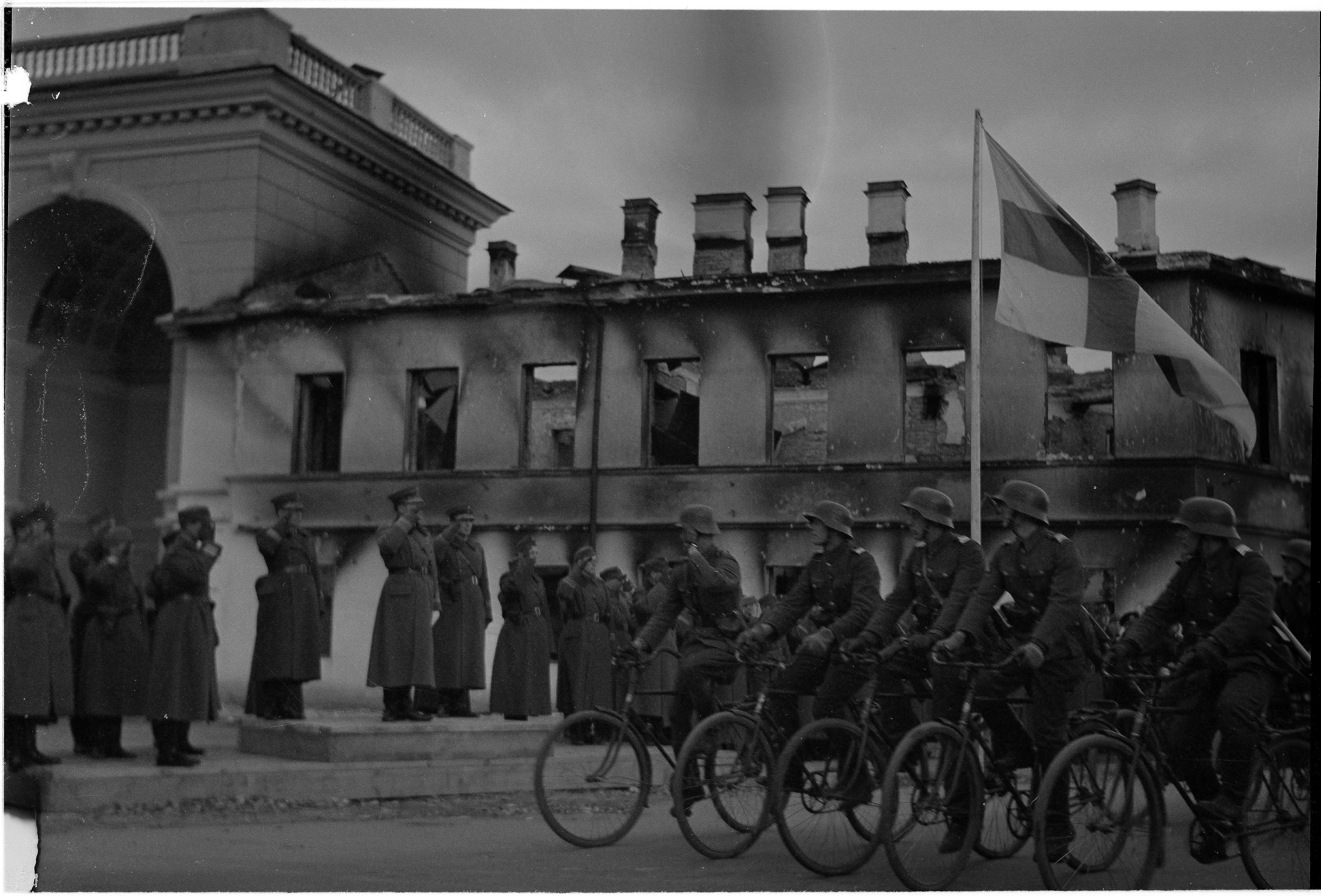 Petrozavodsk captured by Finns. Parade on 12 October 1941